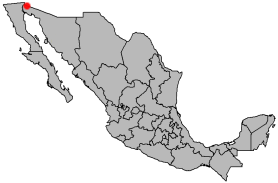 Location of San Luis Rio Colorado, Sonora, Mexico